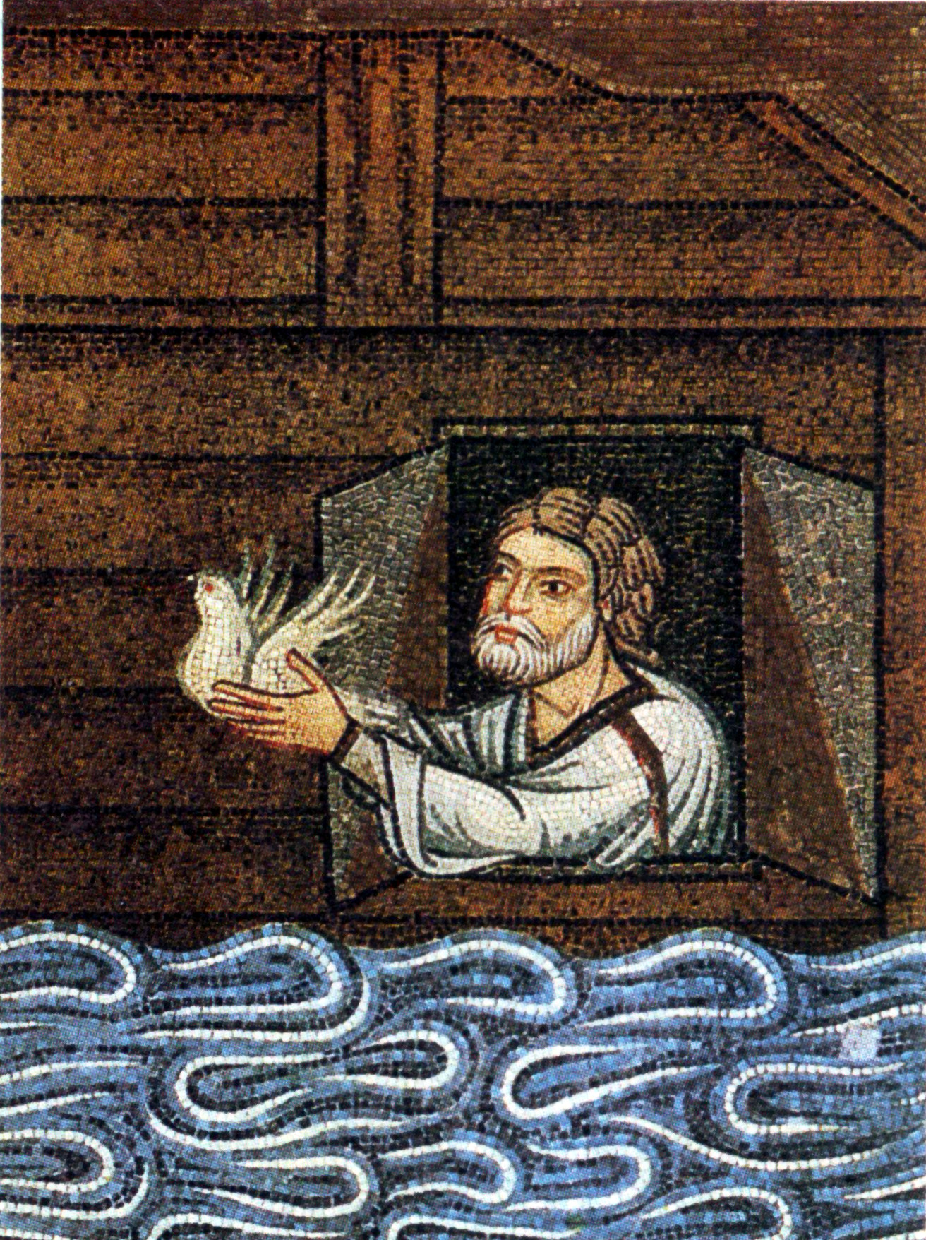 Noah. Mosaic in Basilica di San Marco, Venice